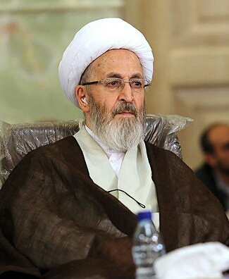 Grand Ayatollah Jafar Subhani (left) with Musa Shubairi Zanajni (right)